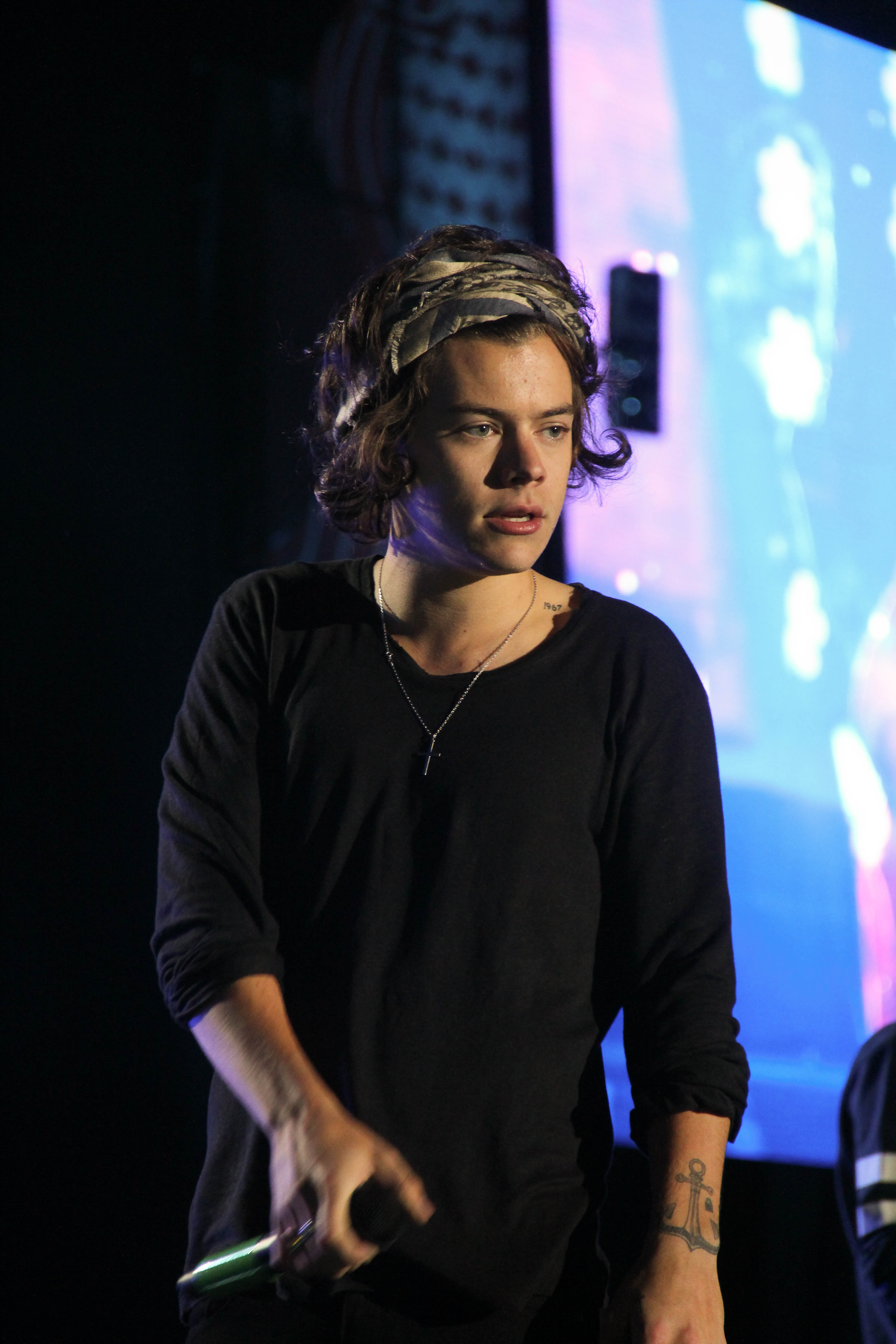 Harry Styles in concert (WWAT 2014) - Perú